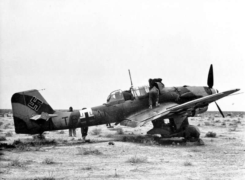 British troops inspect a German Junkers Ju 87B-2 Stuka which made an emergency landing in the desert, December 1941. The aircraft was assigned to 5. Staffel, II/StG 2 "Immelmann" (5th Squadron, 2nd Group, 2nd Dive Bomber Wing).